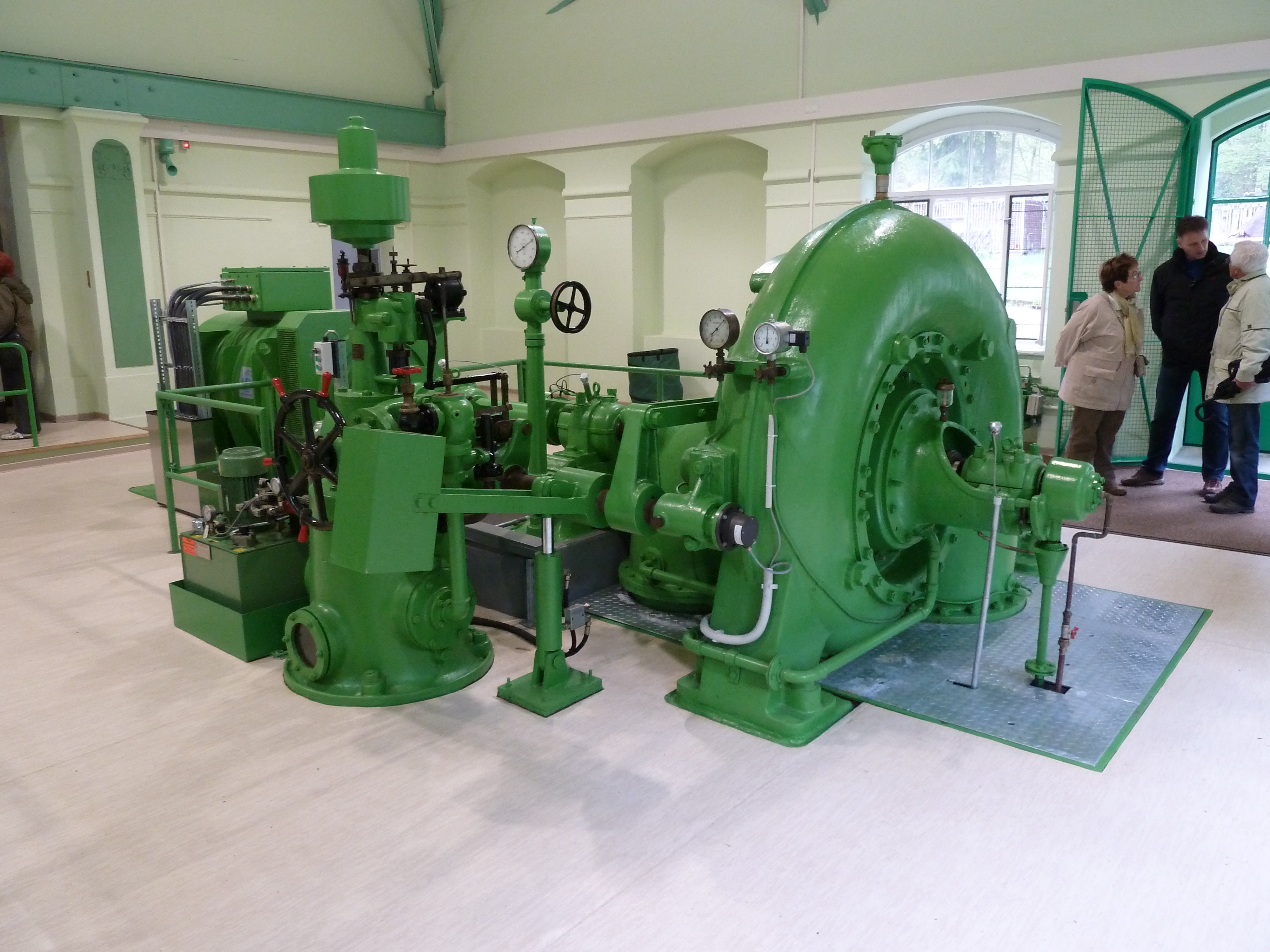 Hydro electric power plant Rabenauer Grund, Saxony; since 1911. Three generator sets. Two generator sets with a Francis turbine by Voith, Heidenheim (since 1911) and a synchronous generator by Poege, Chemnitz (1911–2012), replaced by an AEM Dessau generator. Each set has a capacity of 500 kVA. A third generator with a capacity of 150 kVA driven by a cross-flow turbine for small quantities of water is in use since 2012. The power plant is named after Ernst Robert Rudelt, mayor of Deuben, who installed many public services in the aftermath of the industrial revolution.